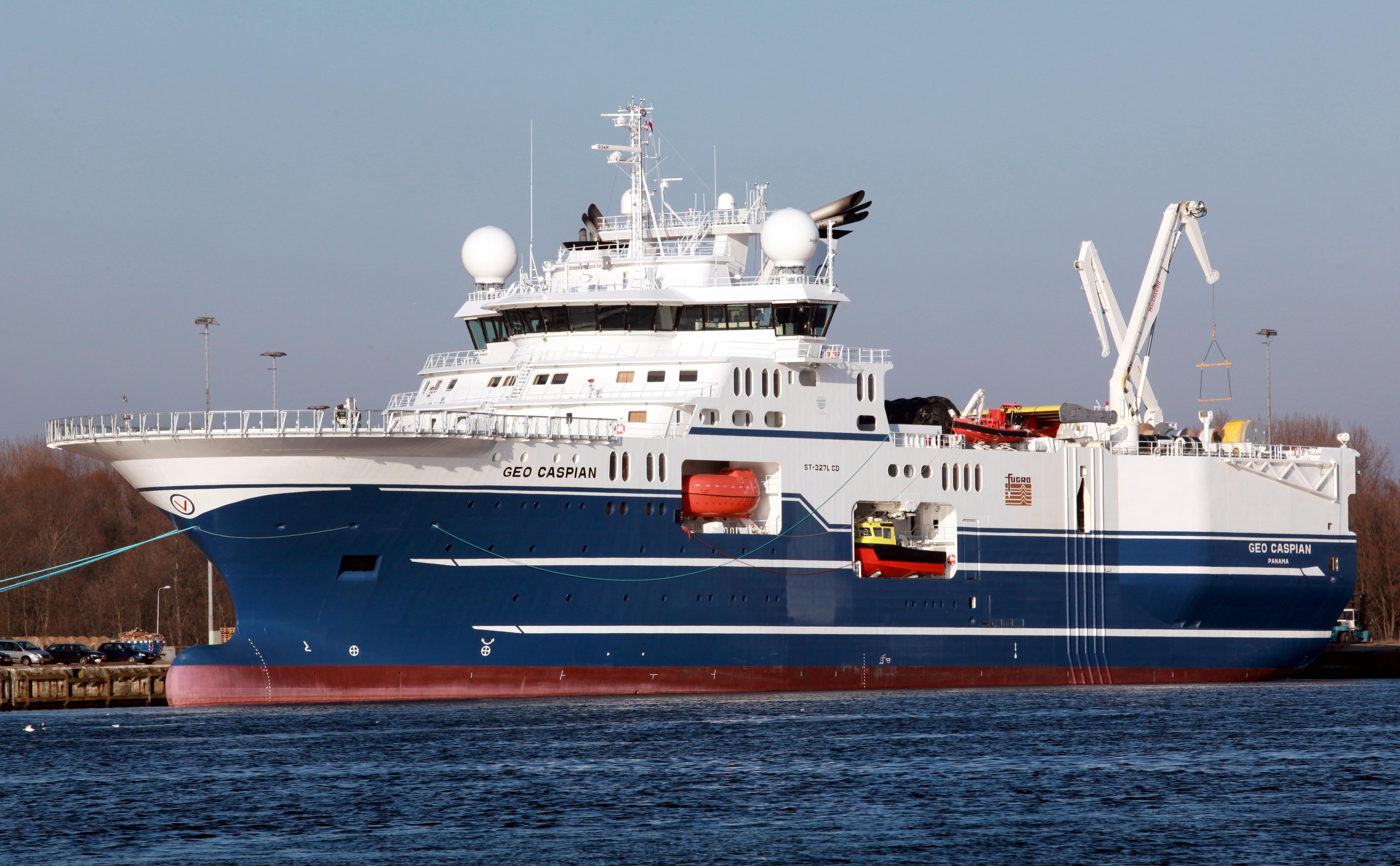 Geo Caspian Panama IMO 9525560 Seismic research vessel - Fugro Geoteam AS